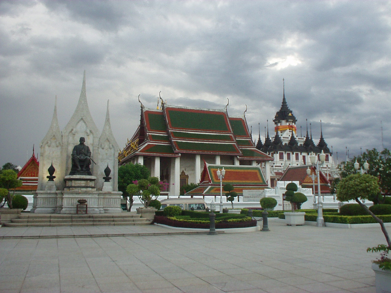 Maha Chesdabodin Plaza with statue of King Rama III; in the background: Wat Ratchanadda with Loha Prasart (Iron Palace). Bangkok. Thailand Autor: Beatriz Busaniche aka MotherForker Fecha: Septiember de 2003